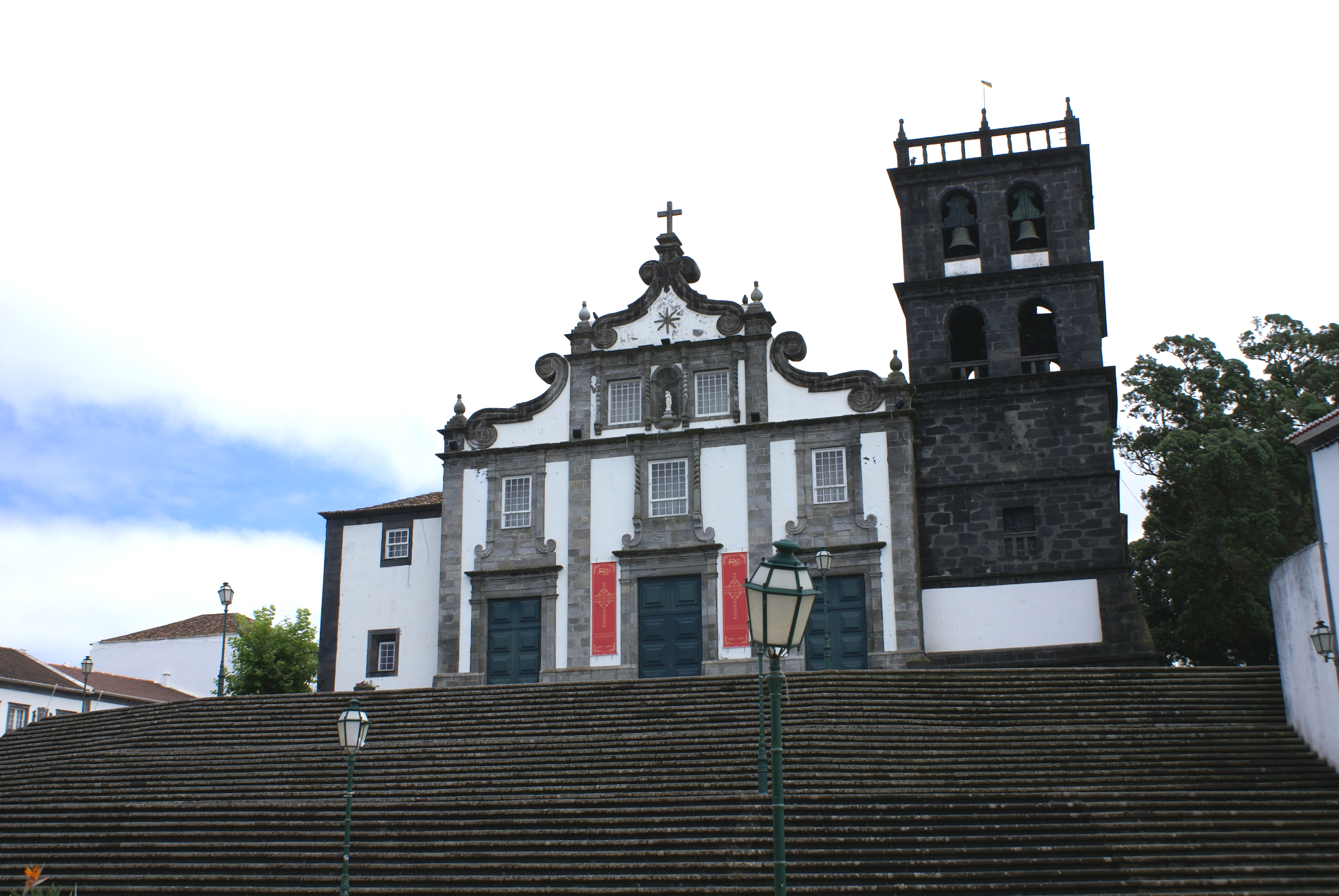 Front façade and staircase of the Matriz Church of Nossa Senhora da Estrela, Ribeira Grande, São Miguel (Azores), Portugal